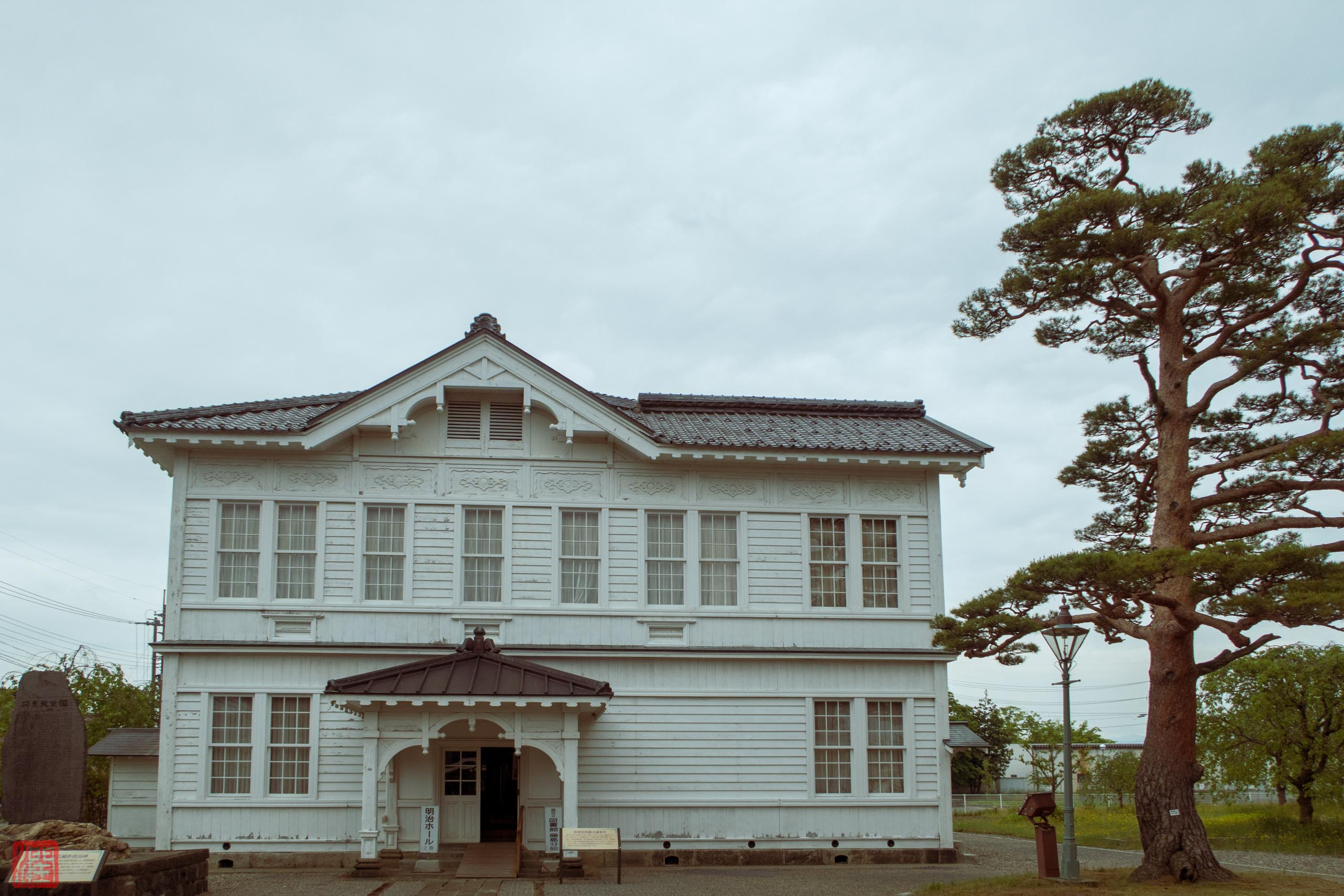 Higashitagawa culture memorial museum in Tsuruoka City, Yamagata Prefecture, Japan